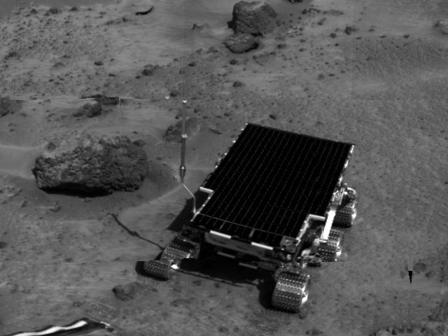 Sojourner Rover and rock "Barnacle Bill" Credit: NASA/JPL/Cornell